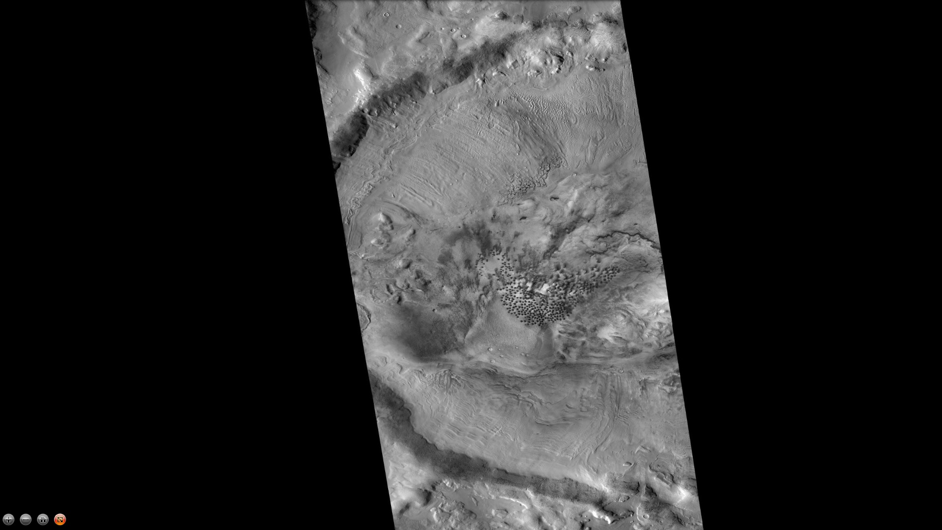 Renaudot Crater, as seen by ctx